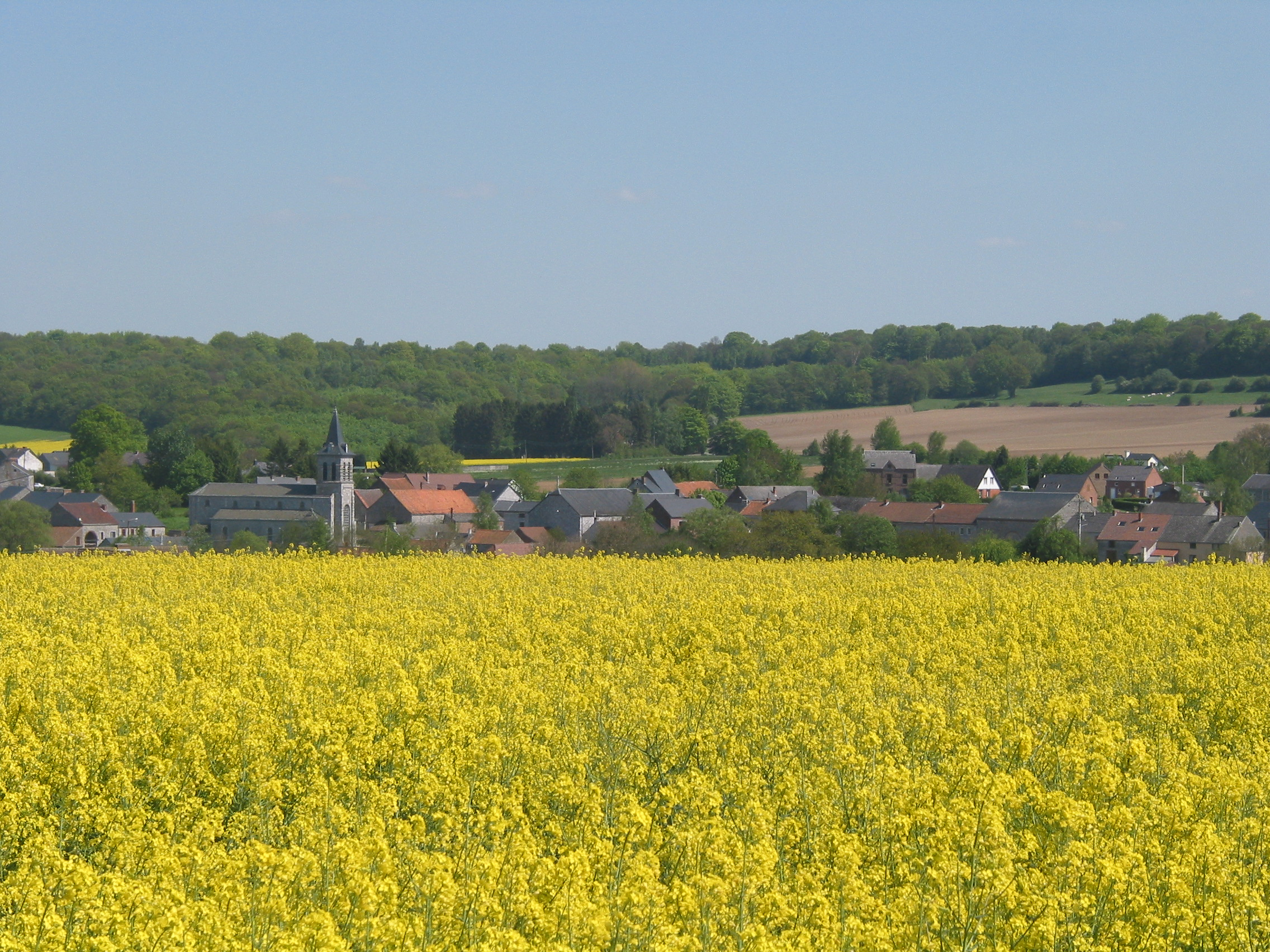 Thy-le-Bauduin (Belgium), the rapeseed fields in May.